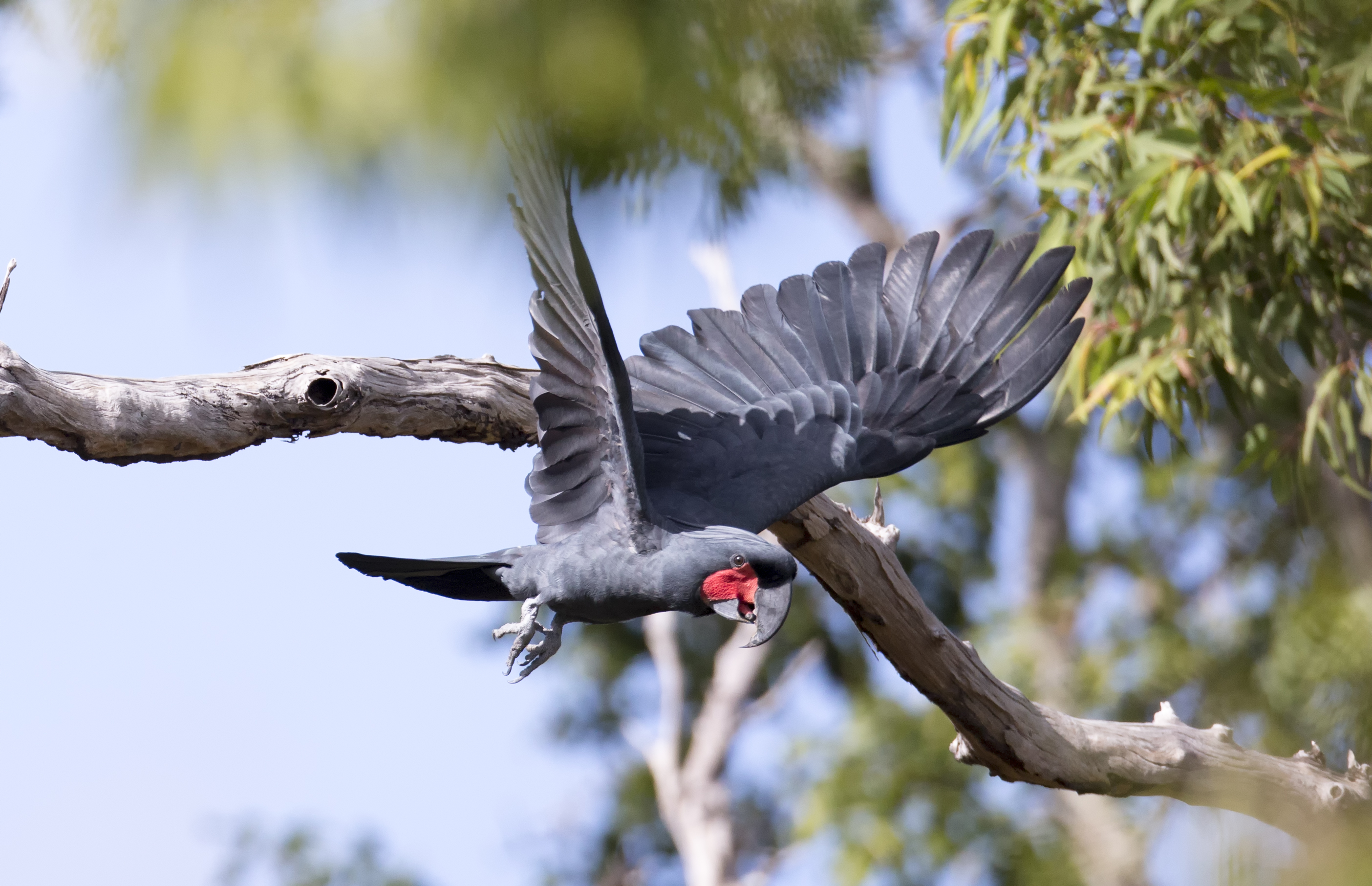 Palm Cockatoo Probosciger aterrimus flying to the nearby nest site. In Australia they are only found on the tip of Cape York so they are a bit rare.